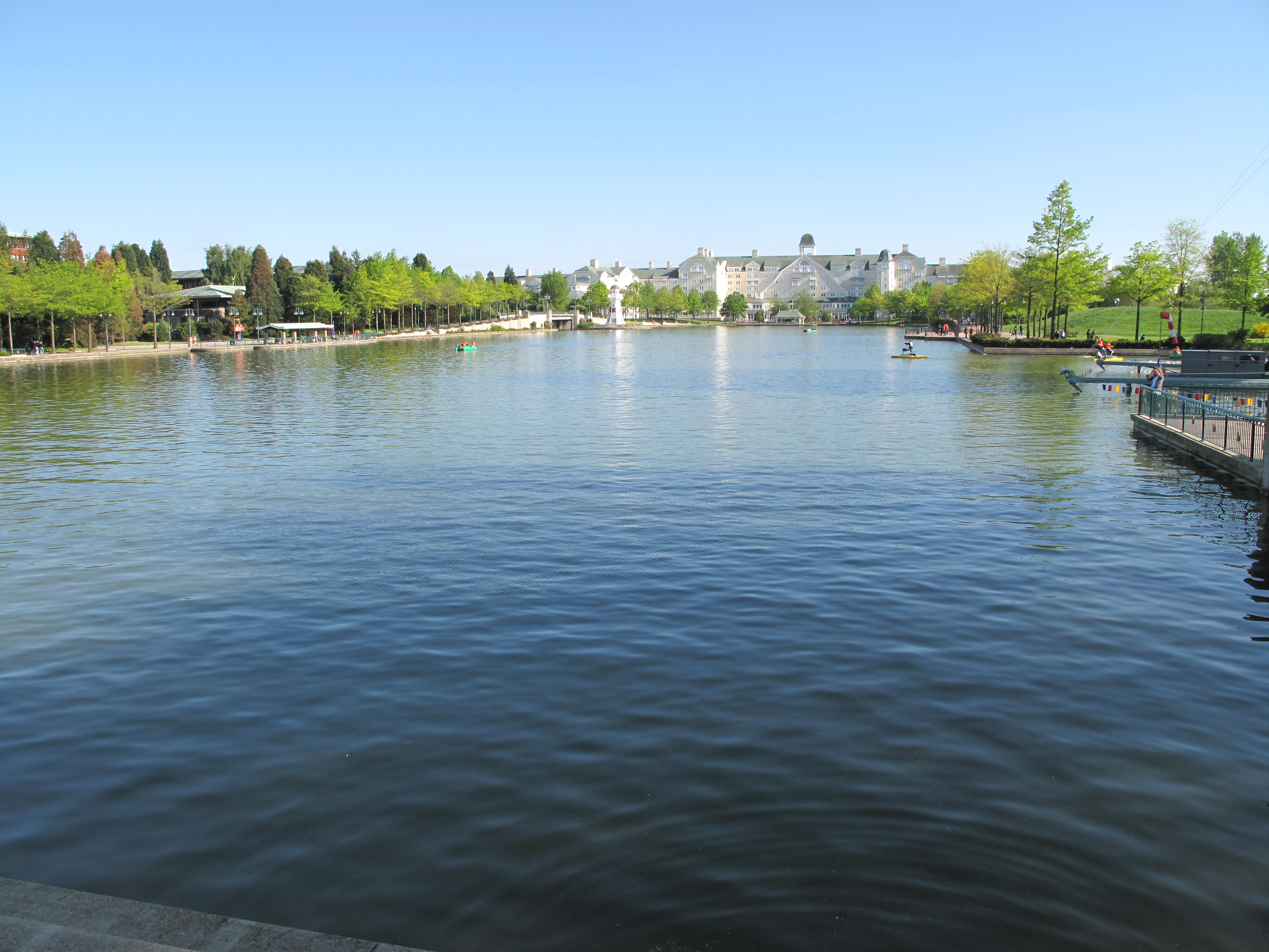 The lake of Disney Village on the banks of which are built the hotels Sequoia Lodge et Newport Bay (here in the background) at Disneyland Resort Paris.